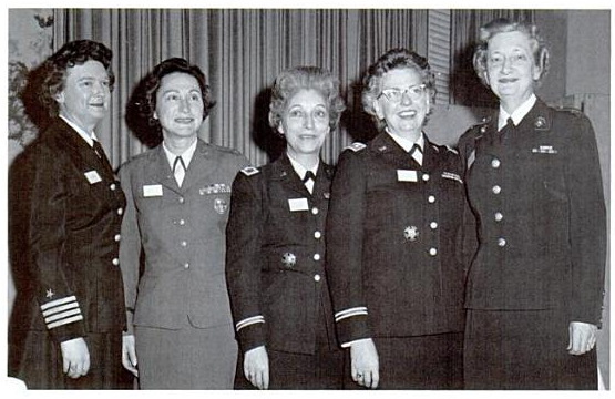 Description from page 188 of The Women's Army Corps, 1945-1978 by Bettie J. Morden ( "Newly Named Deputy Director, WAC, Lt. Col. Mary E. Kelly with directors of the women's services. Left to right: Capt. Viola B. Sanders, WAVES; Col. Elizabeth Ray, Women in the Air Force, Col. Emily C. Gorman, WAC; Colonel Kelly, and Col. Margaret M. Henderson, Women Marines, 3 January 1963."